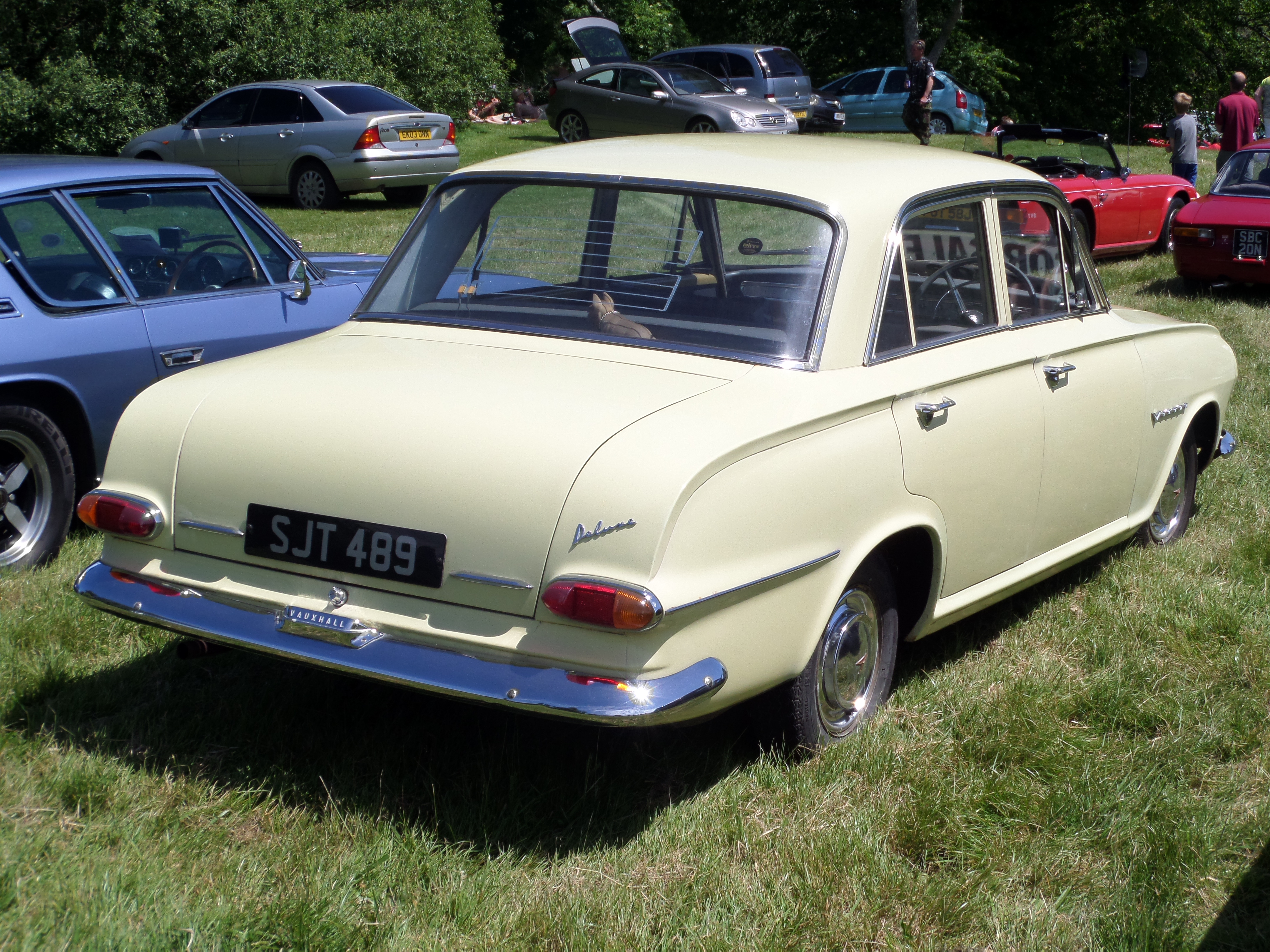 Spotted at the Wessex Car Show, Lulworth Castle, Dorset on Sunday 8th June 2014